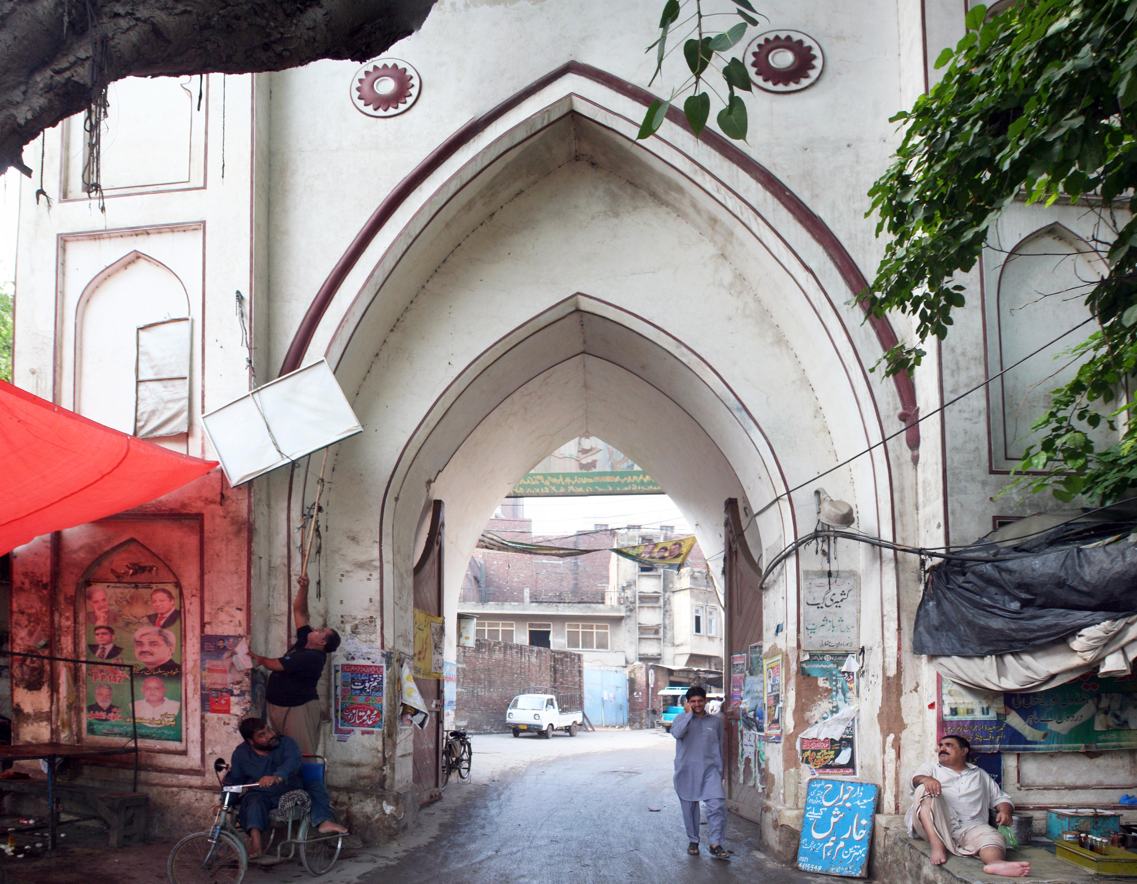 Kashmiri Gate This is a photo of a monument in Pakistan identified as the PB-51